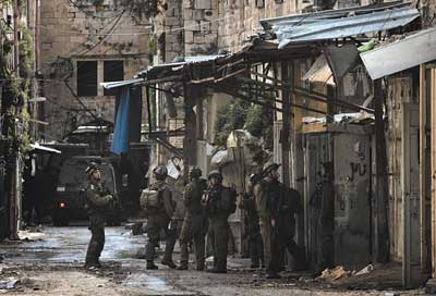 Photo of Haruv Battalion soldiers while conducting operations in the Palestinian city of Nablus.